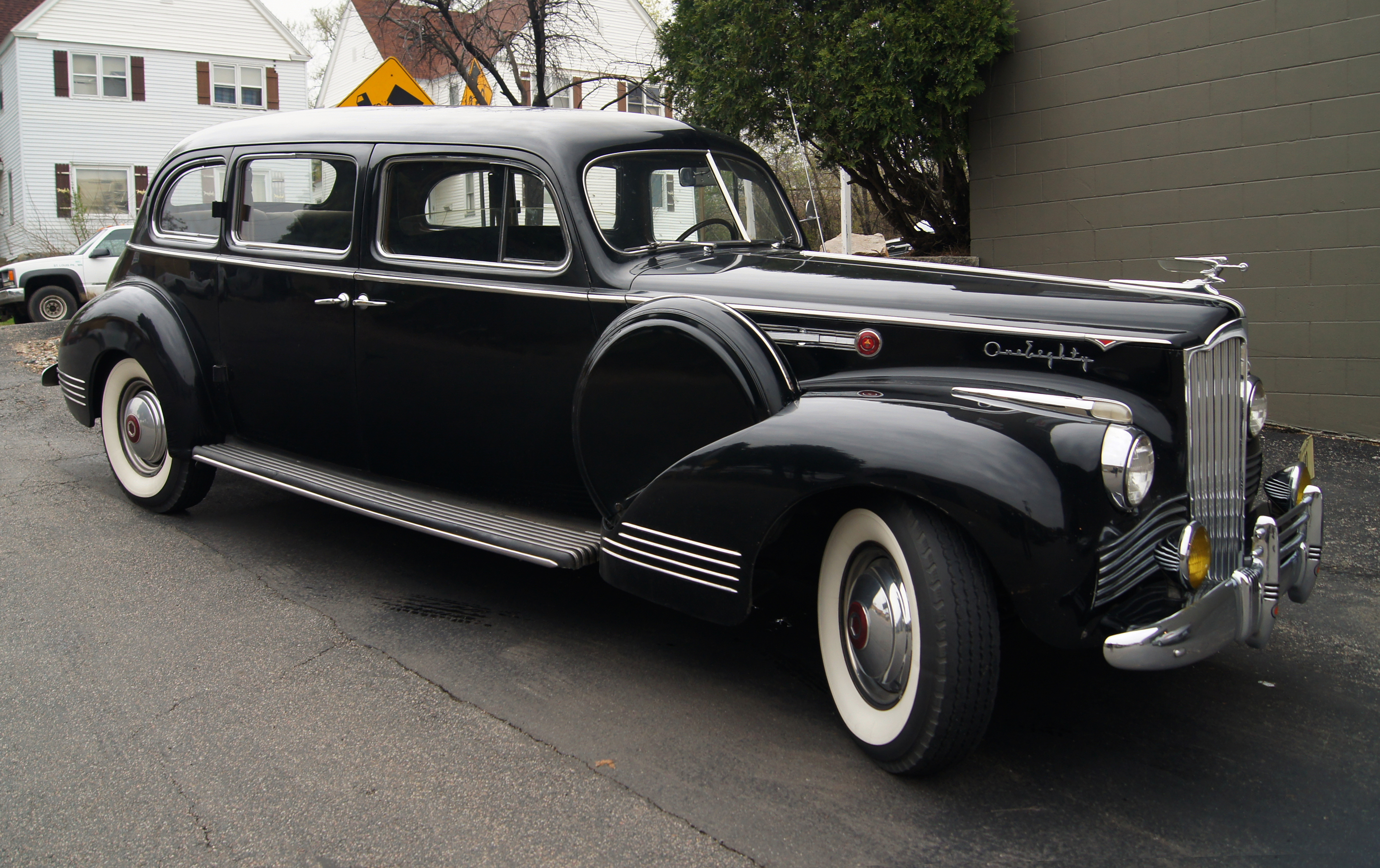 Classic Car Club of America Spring Garage Tour; April 25, 2015.